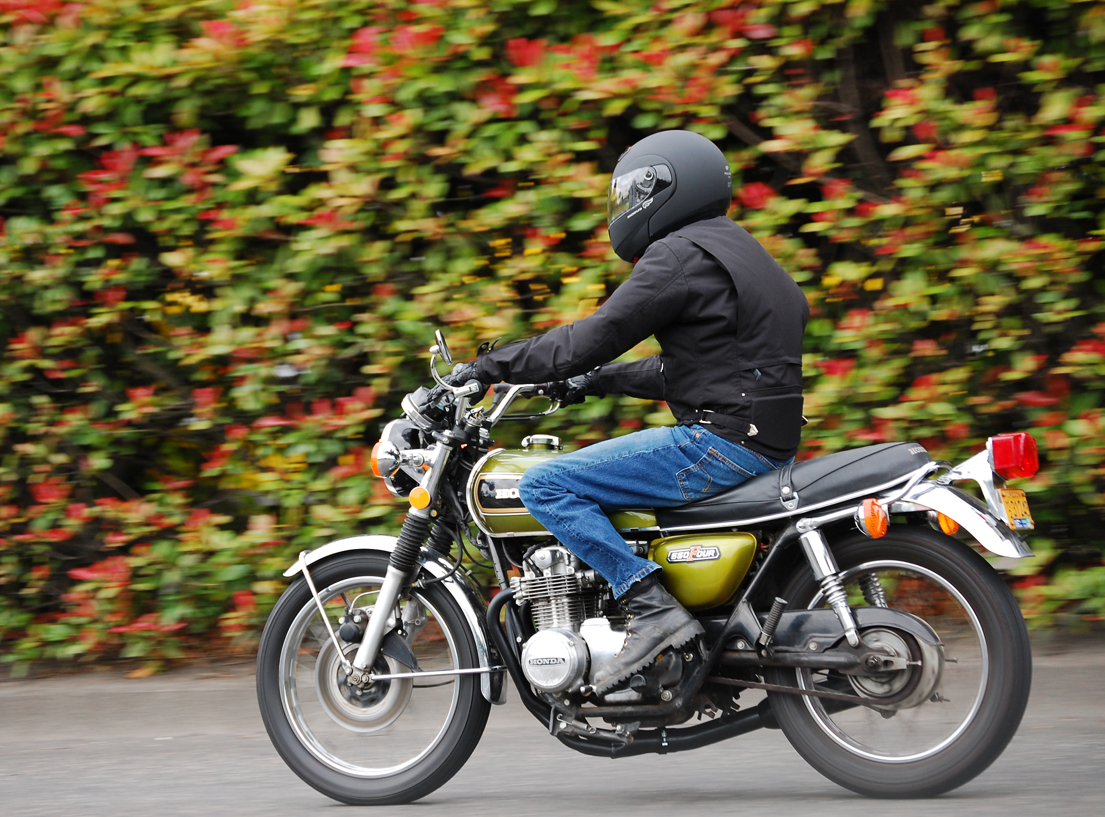 A panned shot of a motor cycle